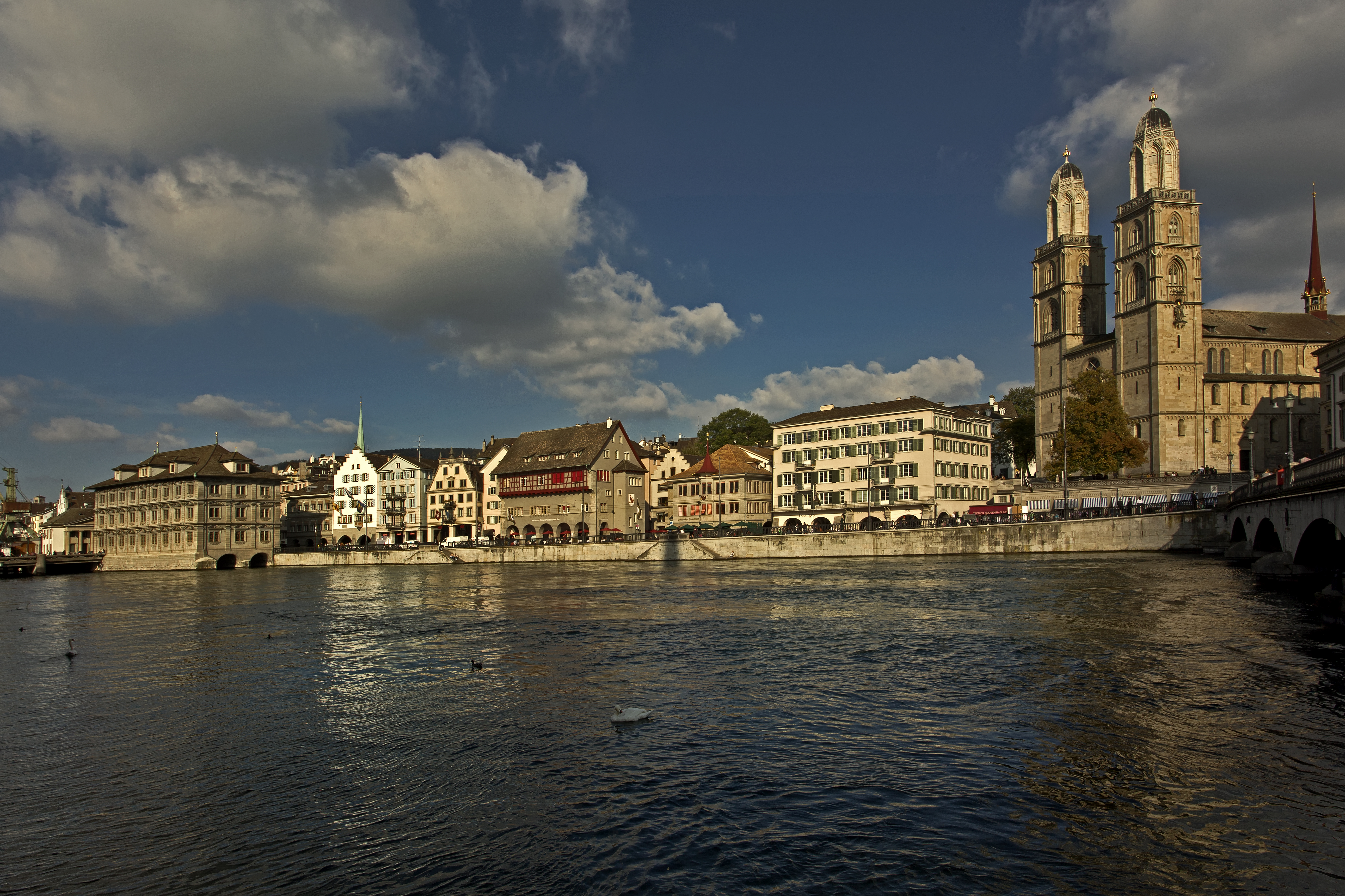 Grossmünster Church on the river Limmat in Zurich